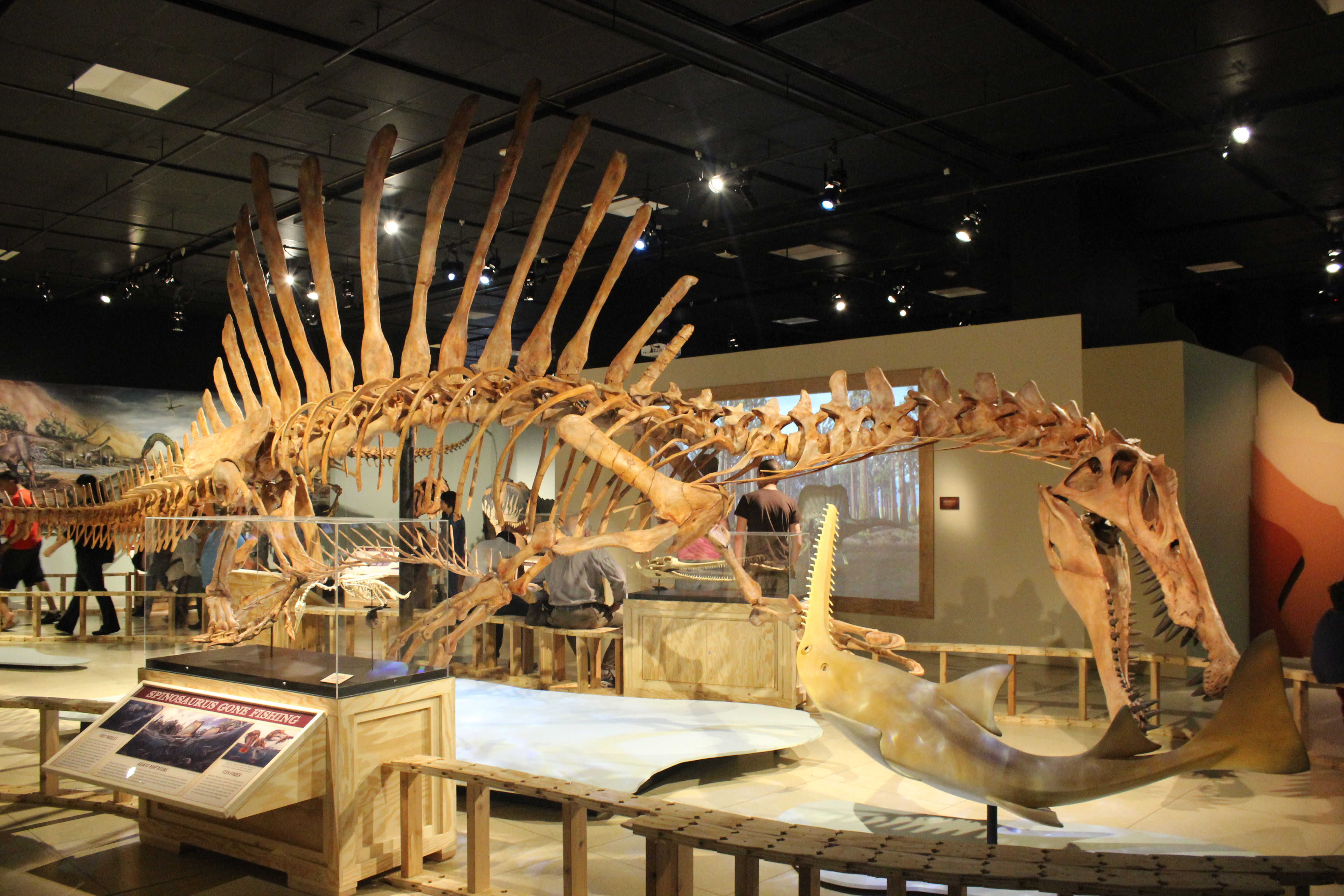 Taken at the National Geographic Museum Spinosaurus Exhibit.